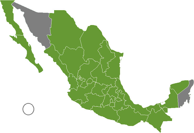 DST in Mexico: green - observed; gray - non observed